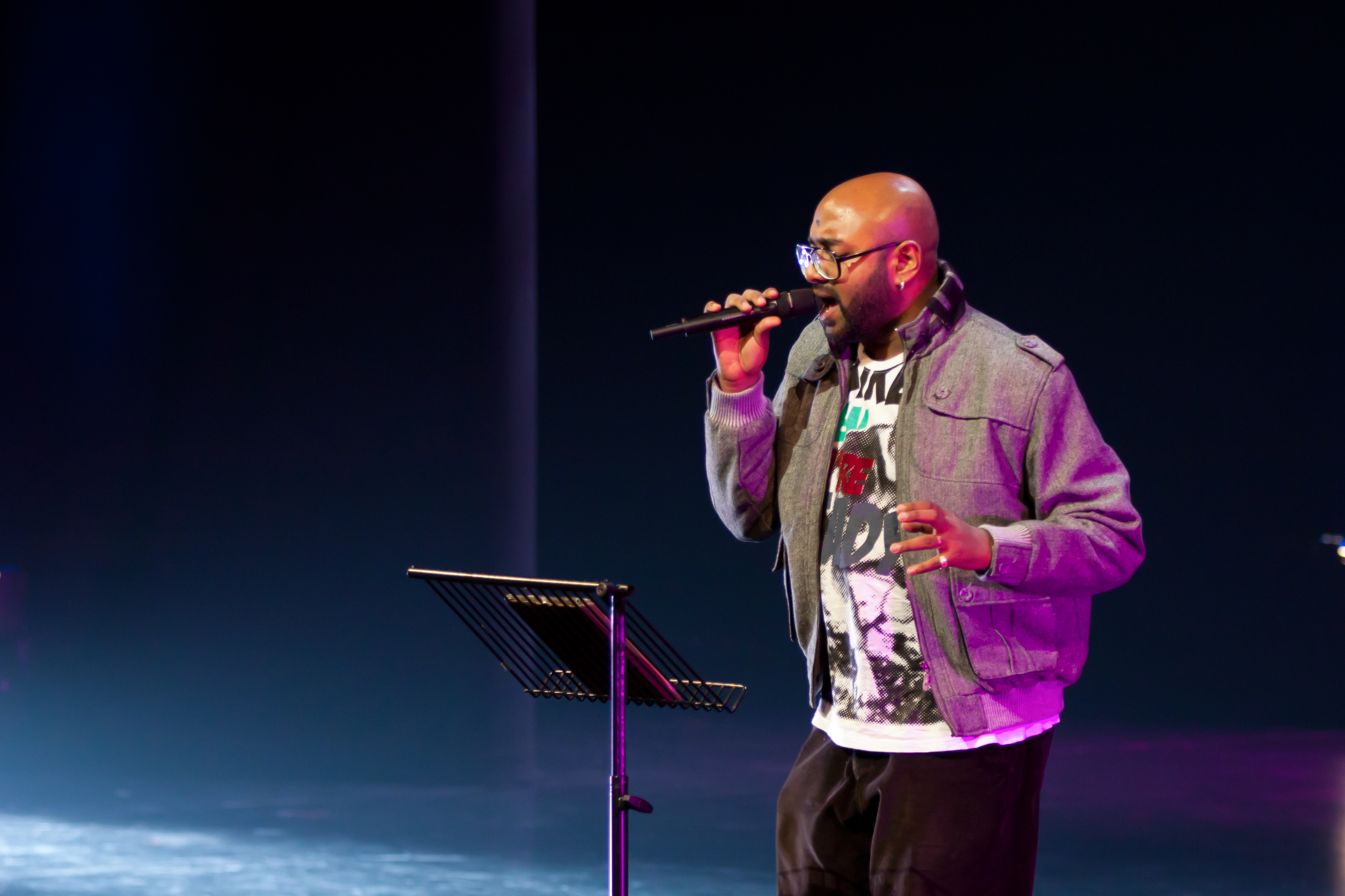 This media file is uploaded with Malayalam loves Wikimedia event - 2.